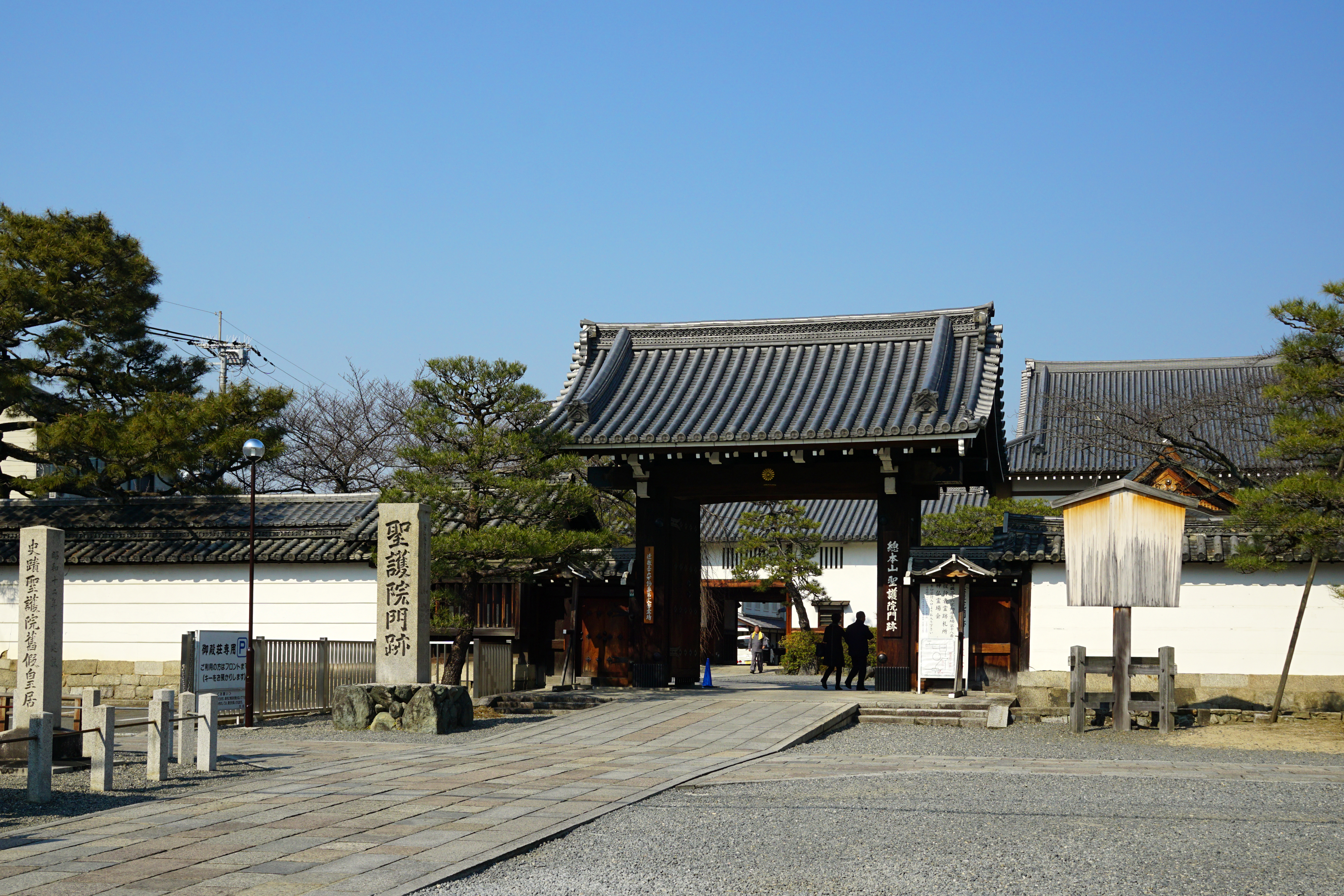 Shogoin in Kyoto, Kyoto prefecture, Japan